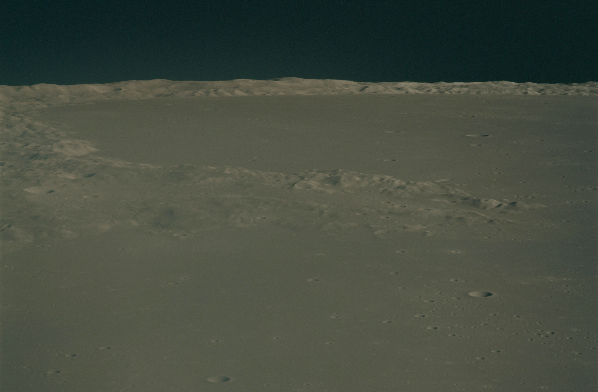 Promontorium Heraclides, a spur of lunar highlands separating Mare Imbrium in foreground from Sinus Iridum in the background. Contrast and brightness adjusted slightly. From Apollo 15. The landing site of Lunokhod 1 is in the central foreground.